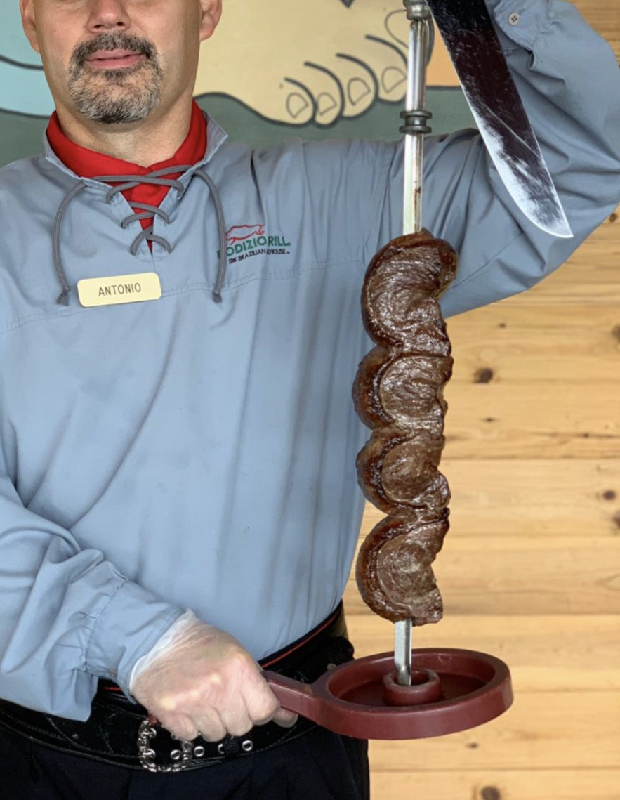 Rodizio Grill Gaucho with nametag reading Antonio serving Top Sirloin on a skewer.